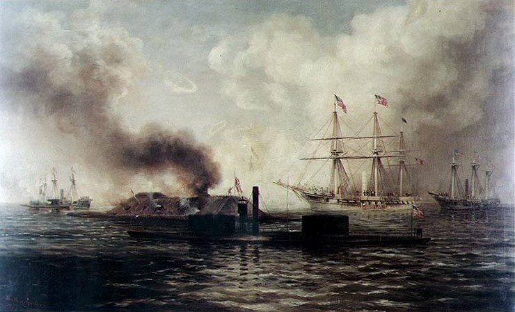 Battle of Mobile Bay, 5 August 1864 (1890), by Xanthus Russell Smith, oil on canvas, 40" x 66", 1930 gift of Henry Huddleston Rogers. The monitor ships are CSS Tennessee (left), shown surrendering, and USS Chickasaw (foreground). Admiral Farragut's USS Hartford is right, and USS Winnebago, left.